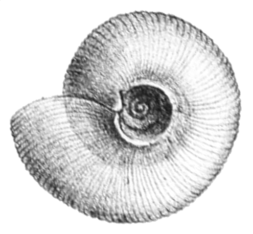 Drawing of umbilical view of the shell of Limacina helicina.